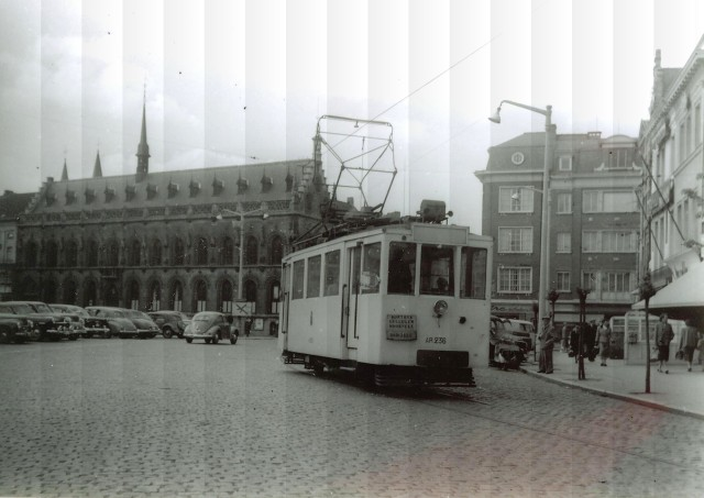 Motortram to Moorsele on the Market Square in Courtrai/Kortrijk. This is not an electric tram! The overhead contact is only used to control the points.